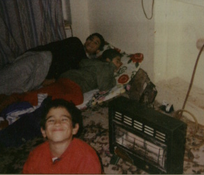 Photo of Omar Khadr, copyright released into the public domain by the Khadr family in Toronto.